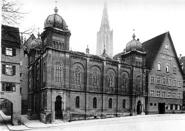 Synagogue of Ulm (Germany) before its transformation in 1927